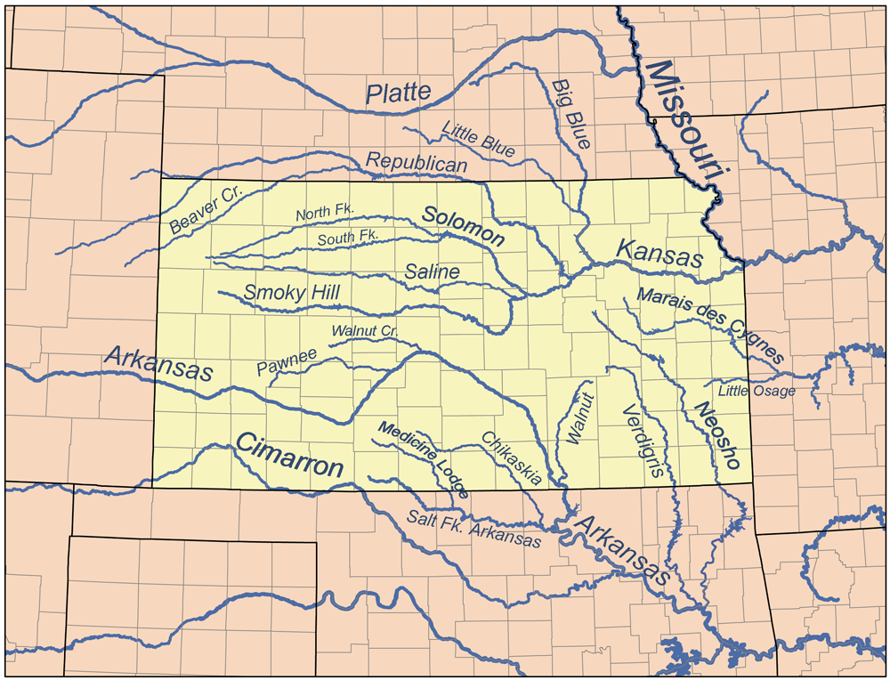 Map showing the major rivers of Kansas. Designed as a replacement for Image:Ks-rivers.gif.